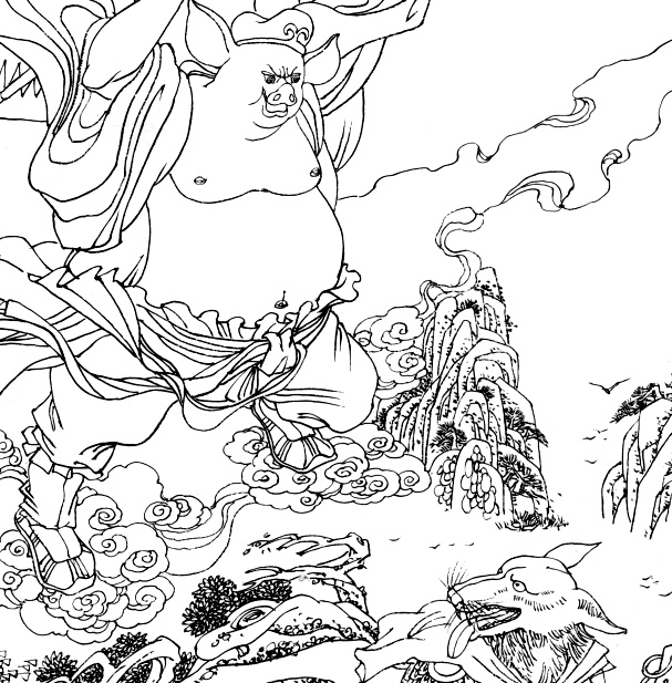 豬八戒斬妖